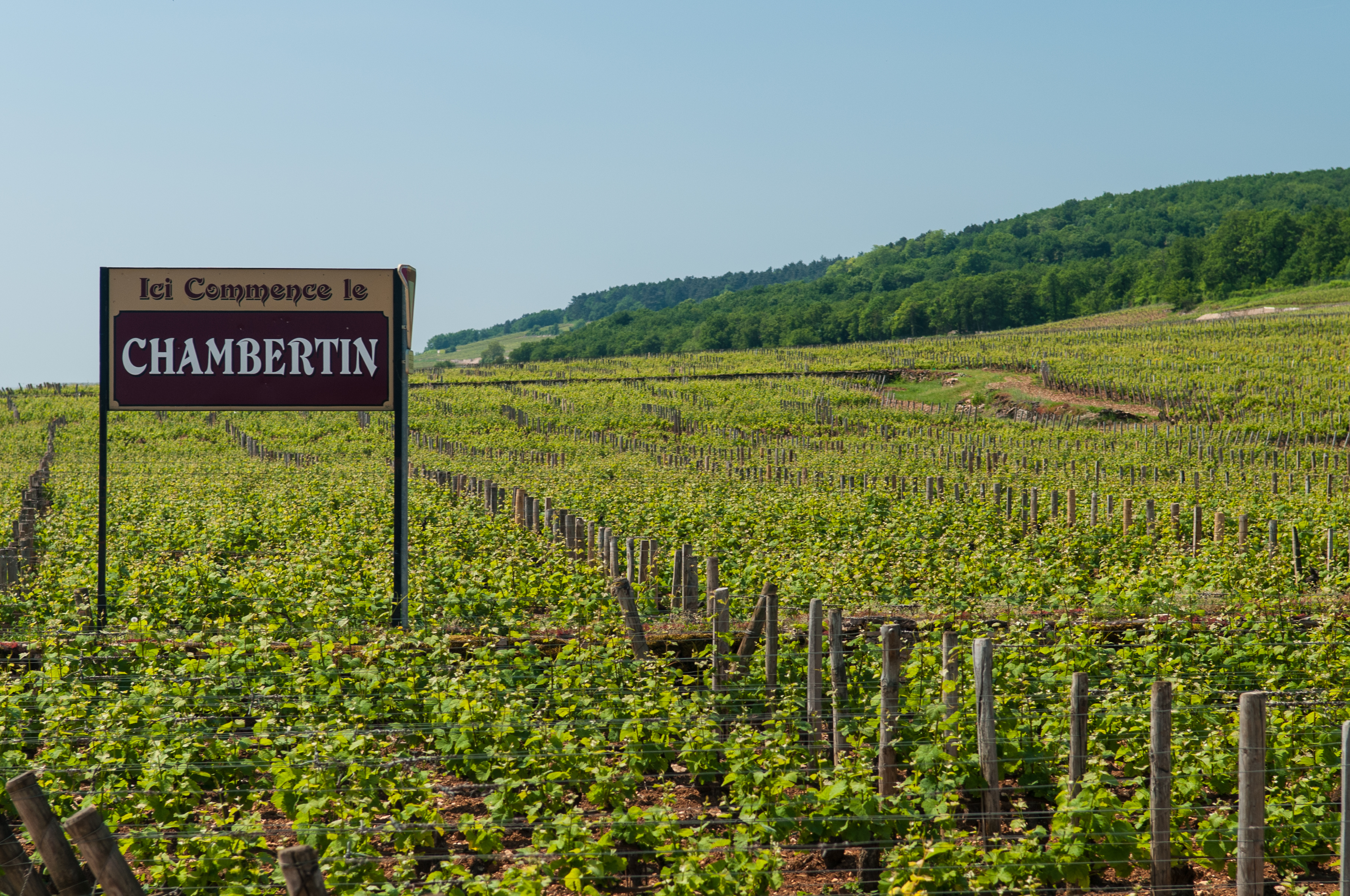 Chambertin is an Appellation d'origine contrôlée (AOC) and Grand Cru vineyard for red wine in the Côte de Nuits subregion of Burgundy, with Pinot Noir as the main grape variety. Chambertin is located within the commune of Gevrey-Chambertin, and it is situated approximately in the centre of a group of nine Grand Cru vineyards all having "Chambertin" as part of their name. The other eight vineyards, which all are separate AOCs, have hyphenated names where Chambertin appears together with something else, such as Chapelle-Chambertin. Chambertin itself is situated above (to the west of) the Route des Grands Crus. It borders on Chambertin-Clos de Bèze in the north, Griotte-Chambertin and Charmes-Chambertin in the east (across the road) and the Latricières-Chambertin in the south. The AOC was created in 1937. Chambertin. (2012, May 6). In Wikipedia, The Free Encyclopedia. Retrieved 13:18, June 4, 2012, from